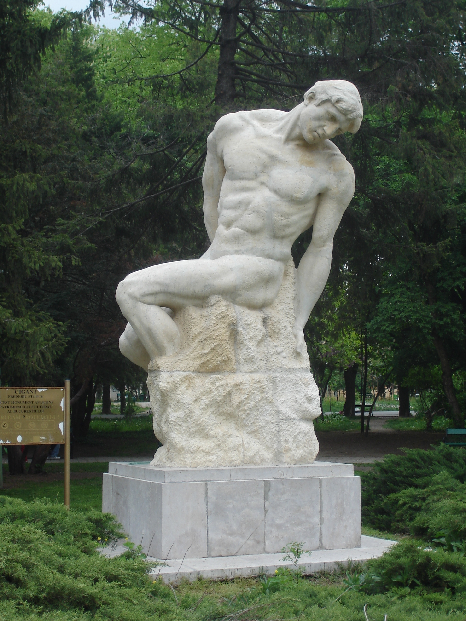 Statue "The Giant" by Frederic Storck placed in the Crol Park in Bucharest